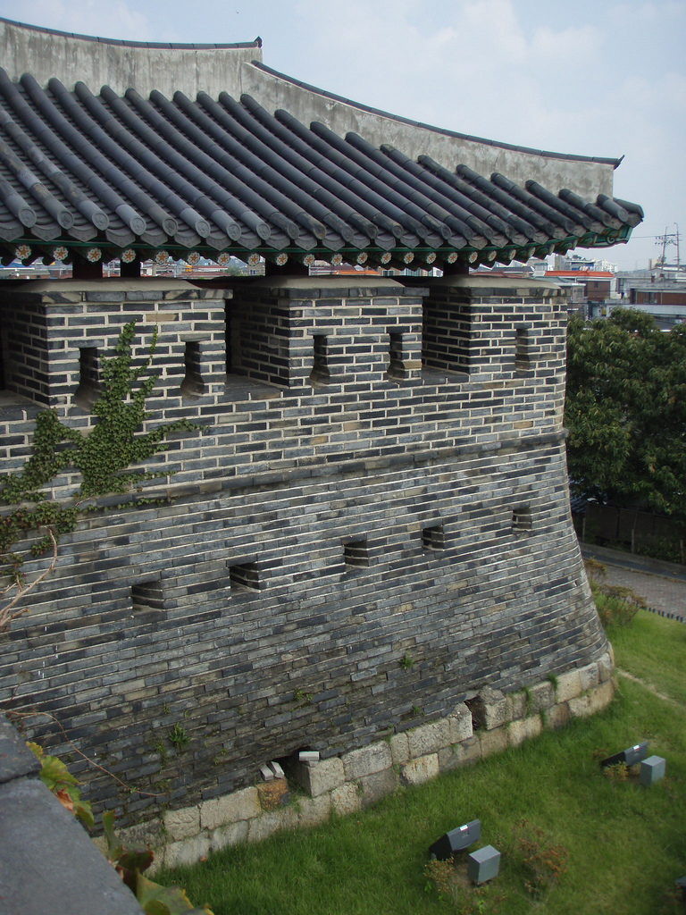 Dongporu Sunwon Hwaseong Fortress